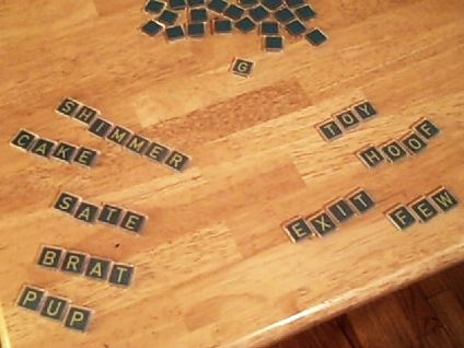 This is a game of Snatch in progress. Snatch is a commercial version of the Scrabble variant "Anagrams." In this photo, taken near the start of a game, two players have gathered, built, or stolen several words apiece. The letter G has just been turned up from the communal pool, and as soon as a player finds a way to make a new word using G and one of their existing words, she can take the G. In this case, SATE could absorb the G and become GATES.